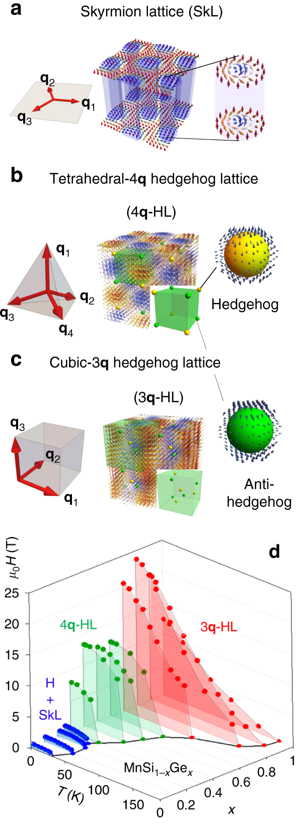 Magnetic state diagram of MnSi1−xGex. Schematics of topological multiple-q spin textures and two-step magnetic transitions in MnSi1−xGex. a Spin configurations of two-dimensional skyrmion lattice (2D SkL), which is a hexagonal array of skyrmion cylinders. It is characterized by three helical modulation vectors (q1+q2+q3=0) perpendicular to external magnetic field H. b Spin configurations of tetrahedral-4q hedgehog lattice (4q-HL), which is described by four q-vectors pointing in the apical directions of a regular tetrahedron. Those q-vectors are fixed along 〈111〉 crystal axes at zero H. Hedgehogs and anti-hedgehogs are at face-centered-cubic positions as illustrated in the bottom right green box representing the magnetic unit cell. c Spin configurations of cubic-3q hedgehog lattice (3q-HL), which is described by three orthogonal q-vectors, which are pinned along 〈100〉 crystal axes at zero H. In a–c the red (blue) arrows drawn in each spin texture represent up (down) magnetic moments. d Variation of phase boundary between ferromagnetic and helimagnetically ordered states as a function of magnetic field H, temperature T, and x in MnSi1−xGex. Red, green, and blue color denote 3q-HL, 4q-HL, and helical(H)/SkL states, respectively. The variation of magnetic transition temperature is indicated by the black line on the bottom plane.